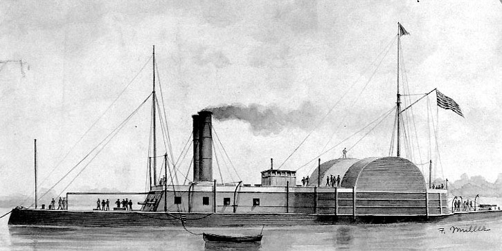 From U.S. Navy public domain Photo #: NH 55835 USS Vindicator (1864–1865) Sepia wash drawing by F. Muller, circa 1900, depicting the ship on the Western Rivers during the Civil War. Courtesy of the U.S. Navy Art Collection, Washington, D.C.